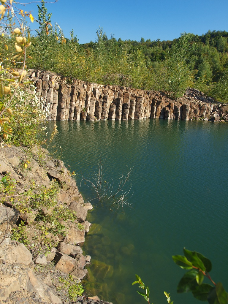 At stone pit on the mountain Nöll in Knüllgebirge. Part of a lake and columnar basalts